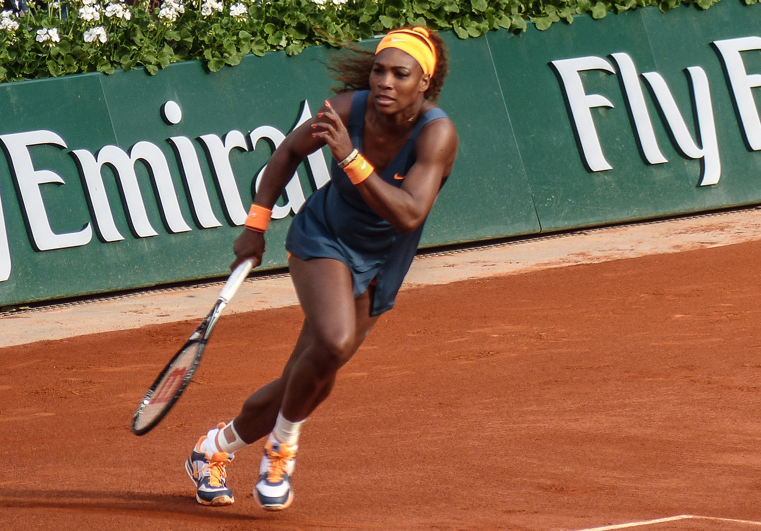 2ème tour Roland Garros 2013 : Serena Williams (USA) def. Caroline Garcia (FRA)